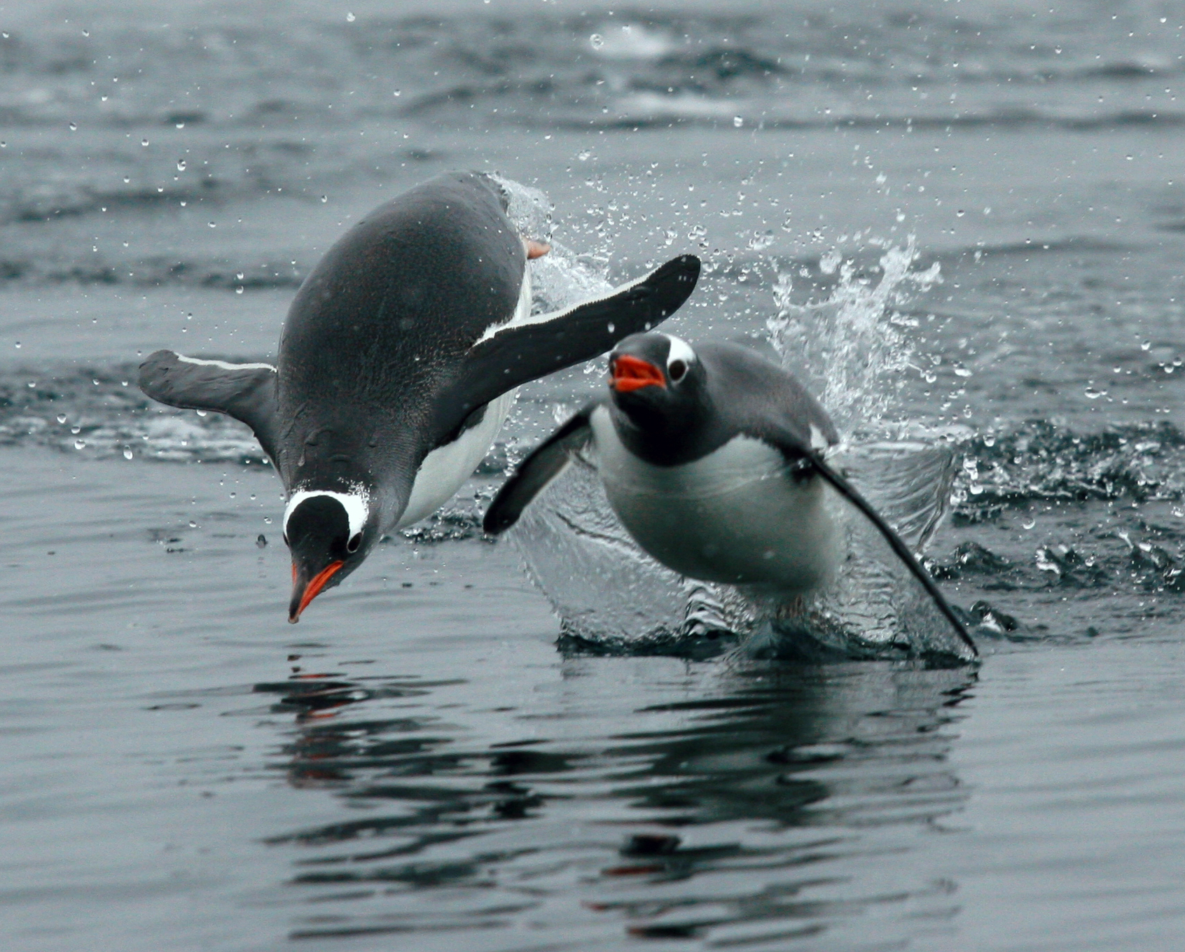 Penguins jumping